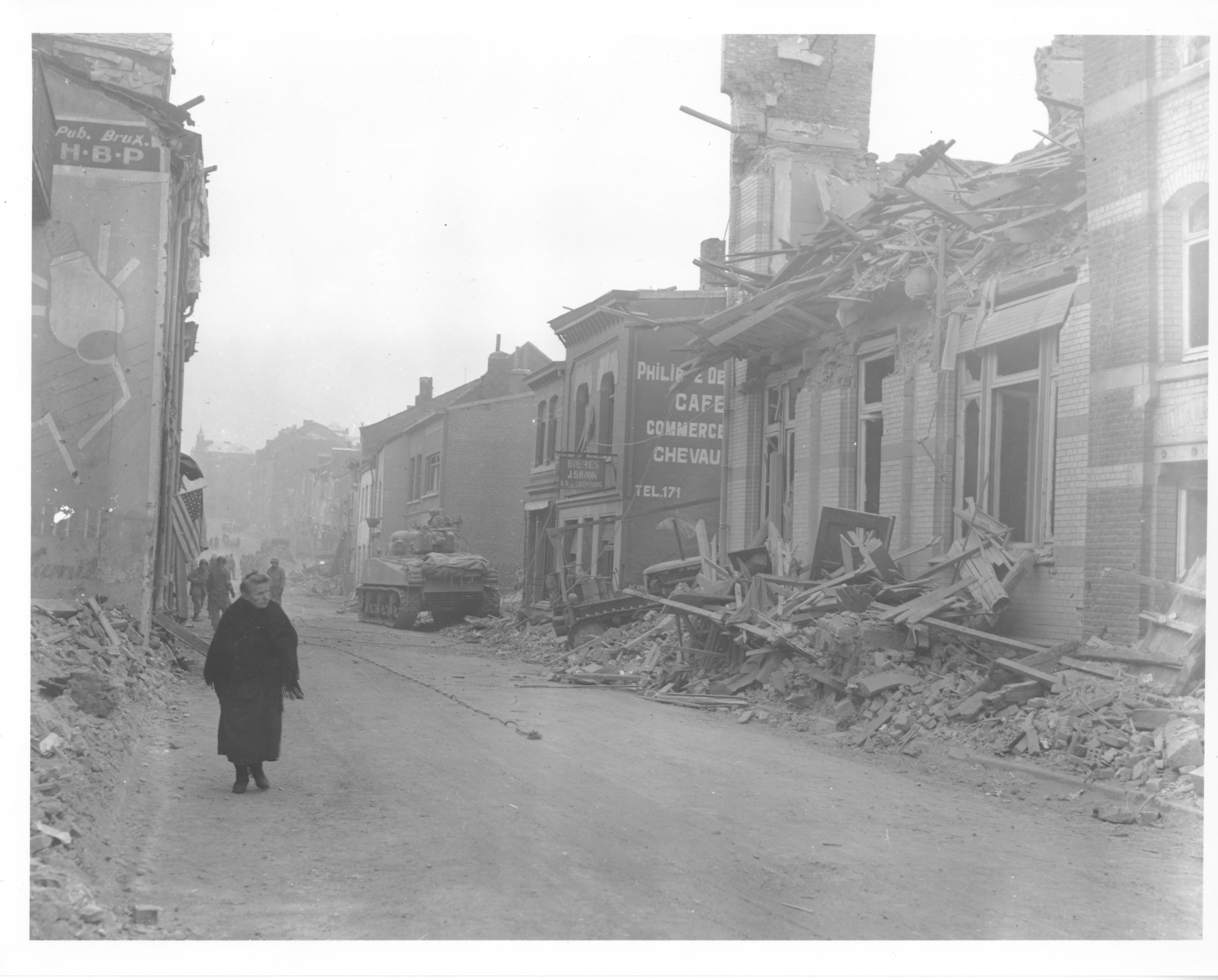 Scope and content: Original caption: Bomb damage, the result of a German ten-day siege of the 101st Airborne Division in Bastogne, Belgium. 12/26/44.